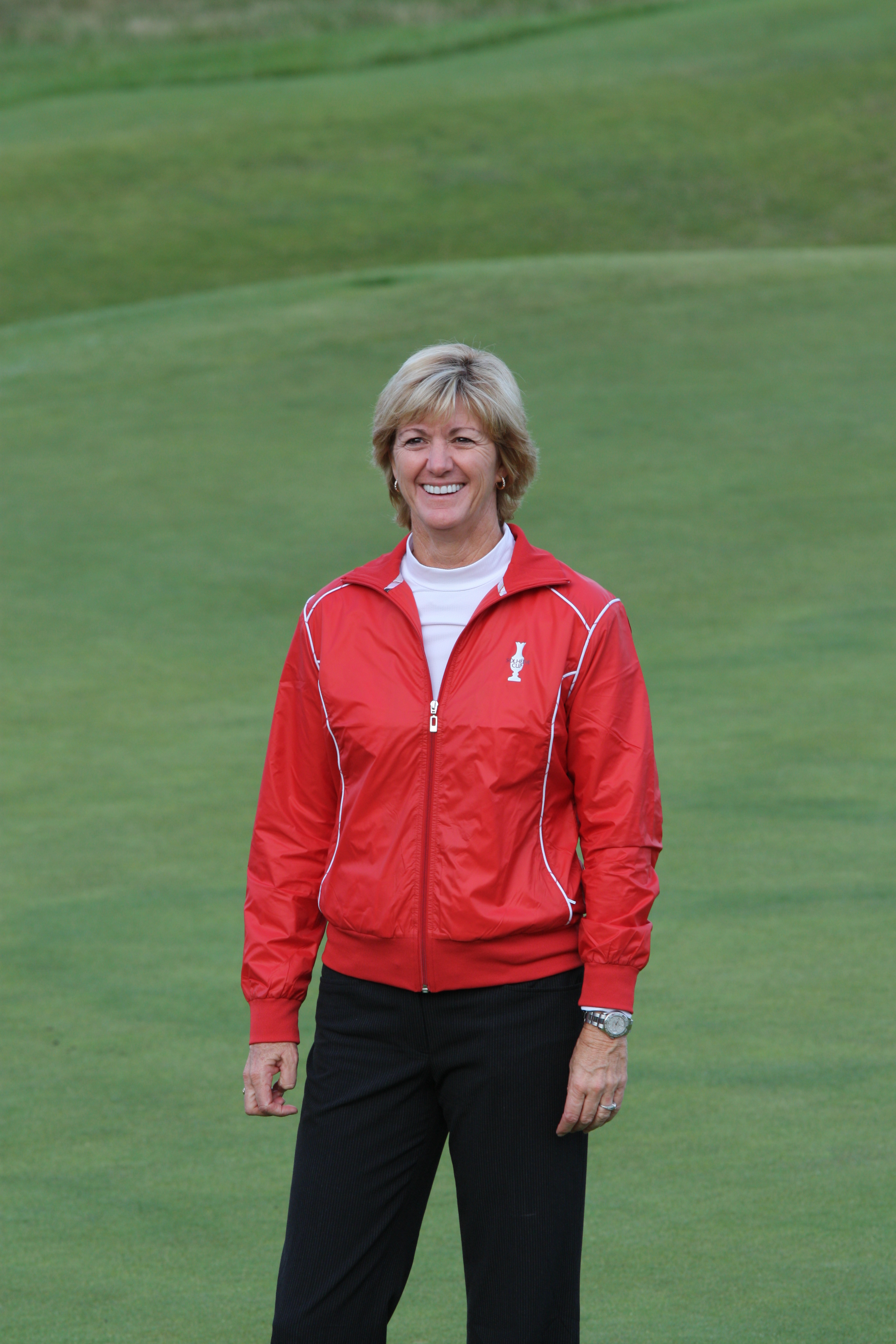 LYTHAM ST ANNES, UNITED KINGDOM - AUGUST 02: Beth Daniel of USA, captain of the USA Solheim Cup Team, posing for a photograph after announcement of Solheim Cup teams, which followed final round of the 2009 Ricoh Women's British Open held at Royal Lytham & St Annes on August 2, 2009 in Lytham St Annes, England. (Photo by Wojciech Migda)